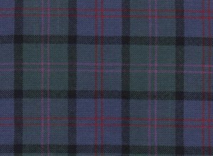 Picture taken by me.